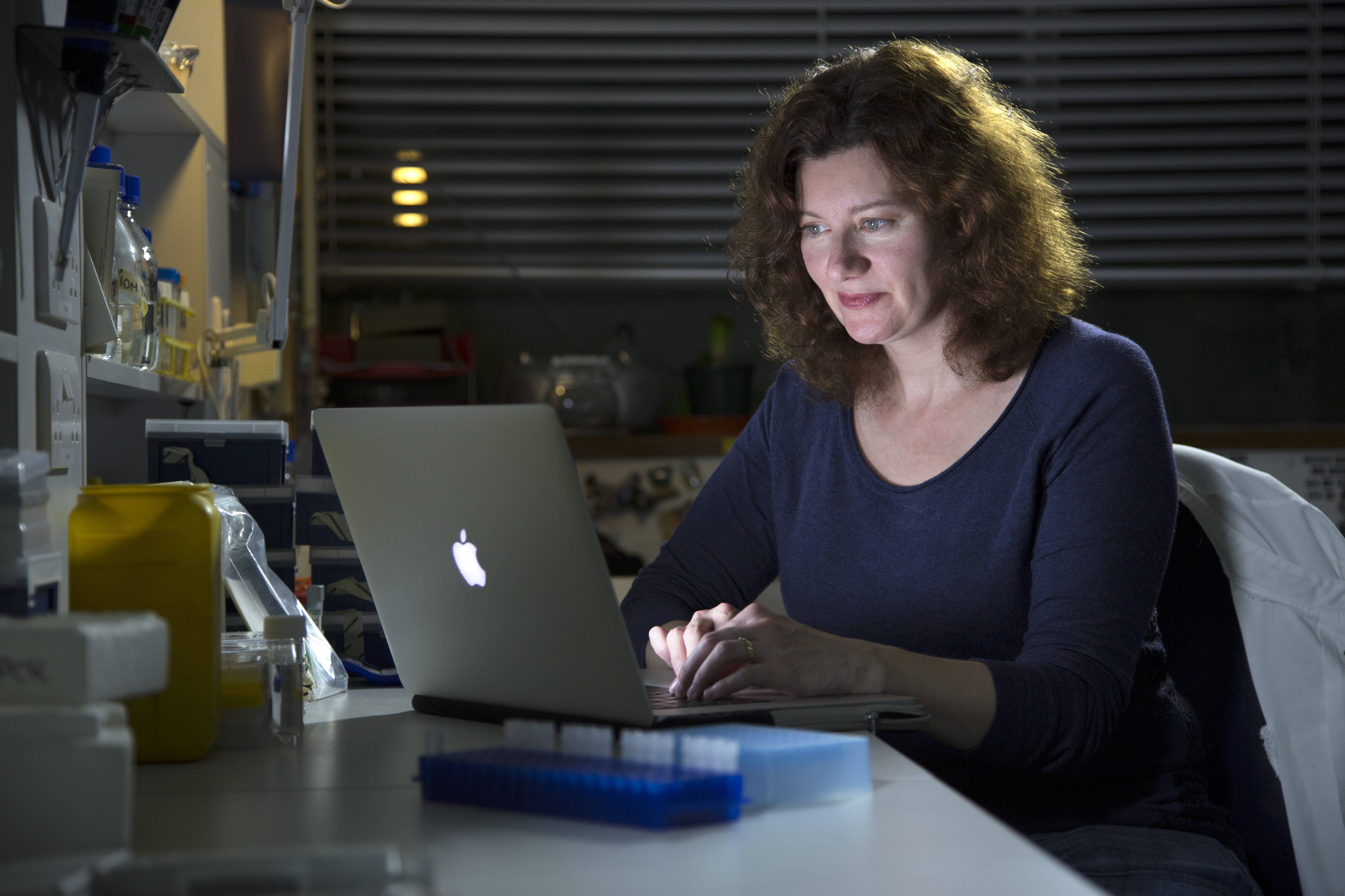 Turi King, Professor of Public Engagement and Reader in Genetics and Archaeology at the University of Leicester, working on her laptop at her lab bench in the Adrian Building of the University of Leicester.